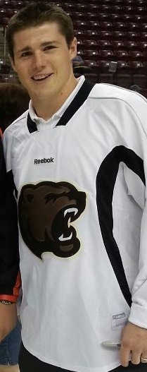 New Pic of Matt Clakson